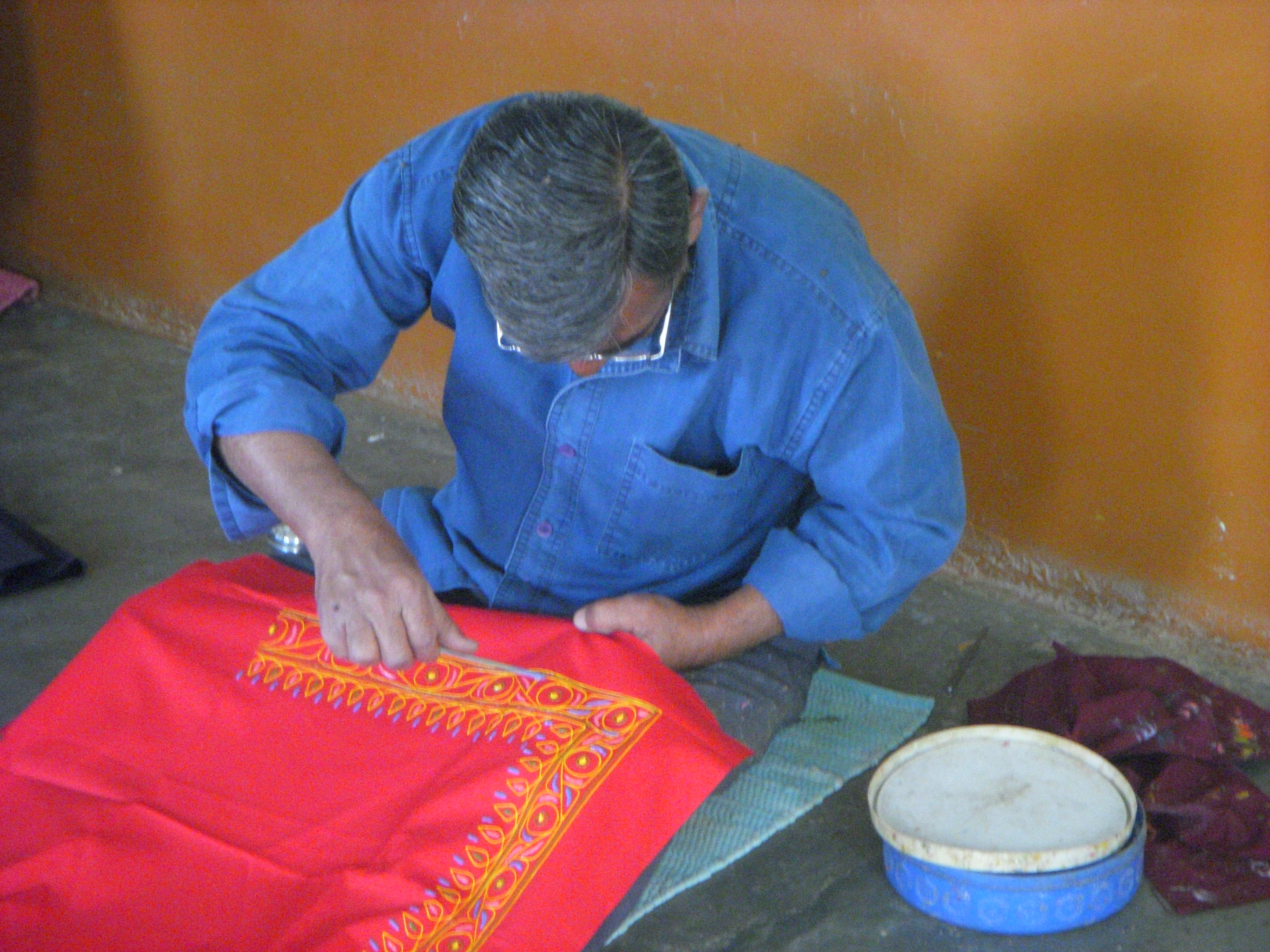 Rogan painting in the village of Nirona, Kaach, India